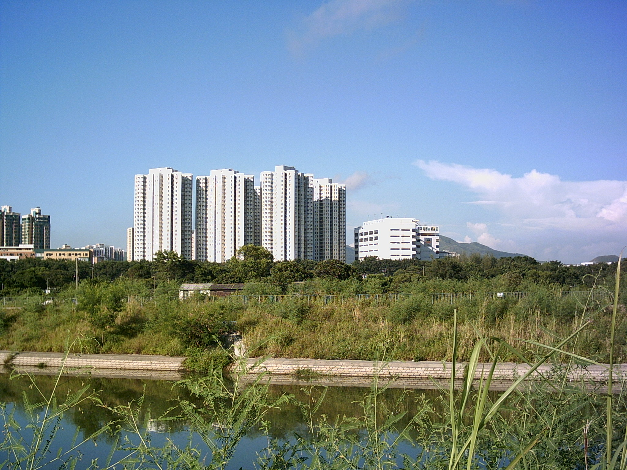 Tsui Lai Garden in the background, Ng Tung River in the foreground. Taken by myself in August, 2006.